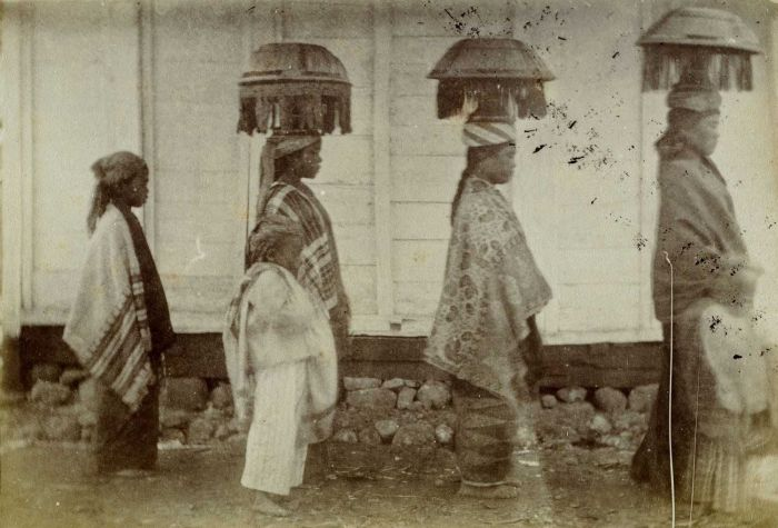 Portrait of a group women carrying dishes on their heads